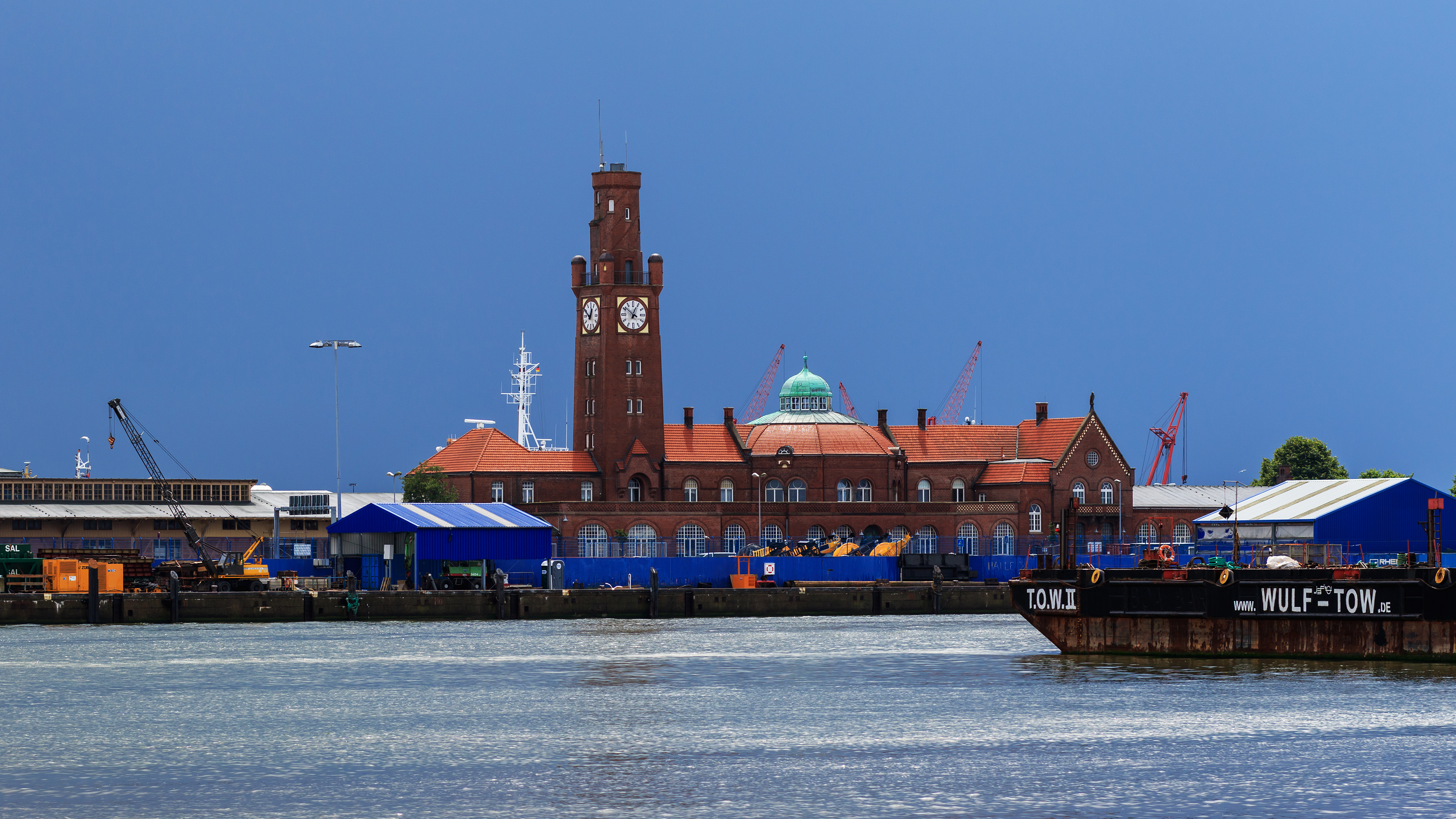 Sea port and its surroundings in Cuxhaven, Germany